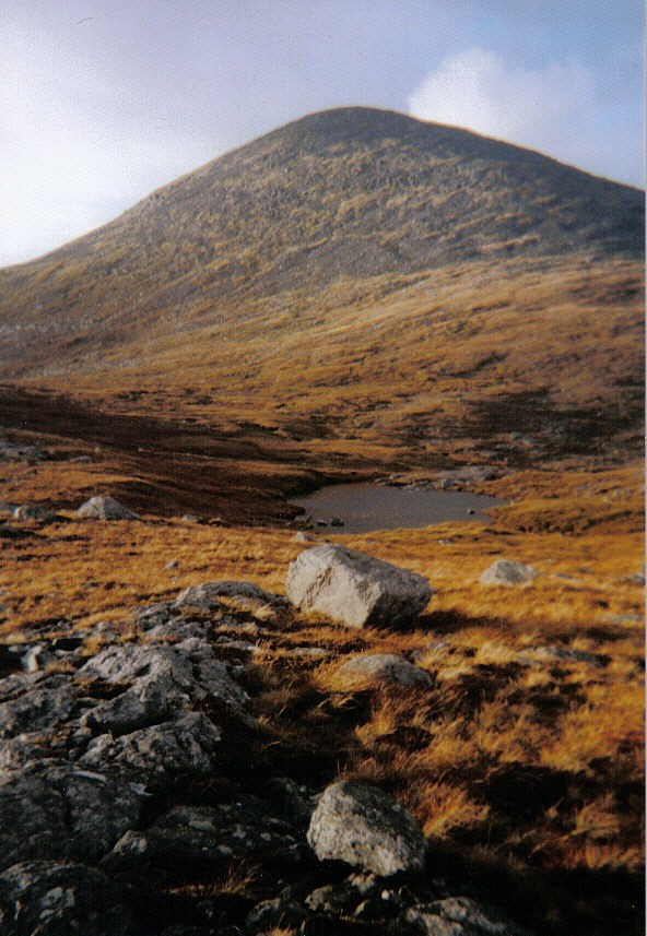 Clisham, located in the Isle of Harris, is the highest hill in the Outer Hebrides, measuring 799 meters. Here it is seen from the top of another hill, Tarsaval.